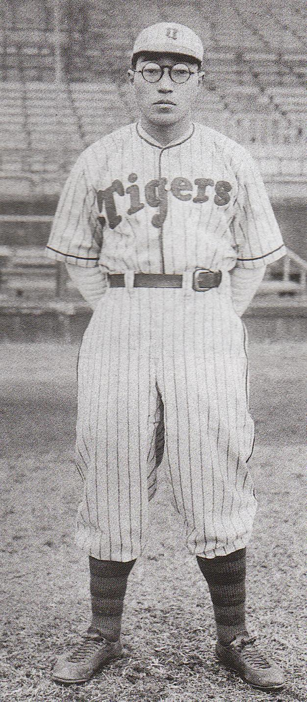 A professional baseball player from Japan, Kenjiro Matsuki.